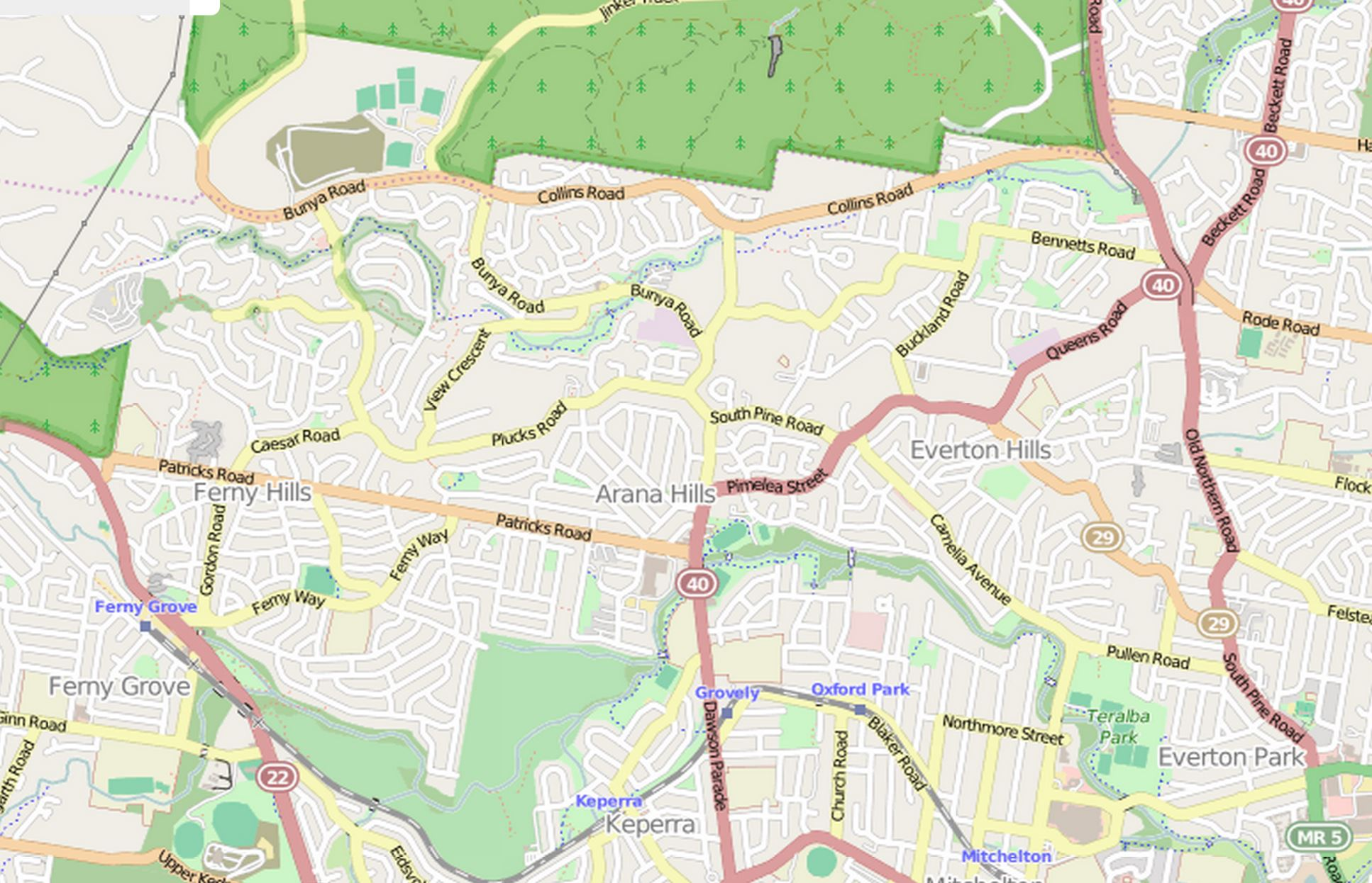 Open Street Map - Hills District, 2015